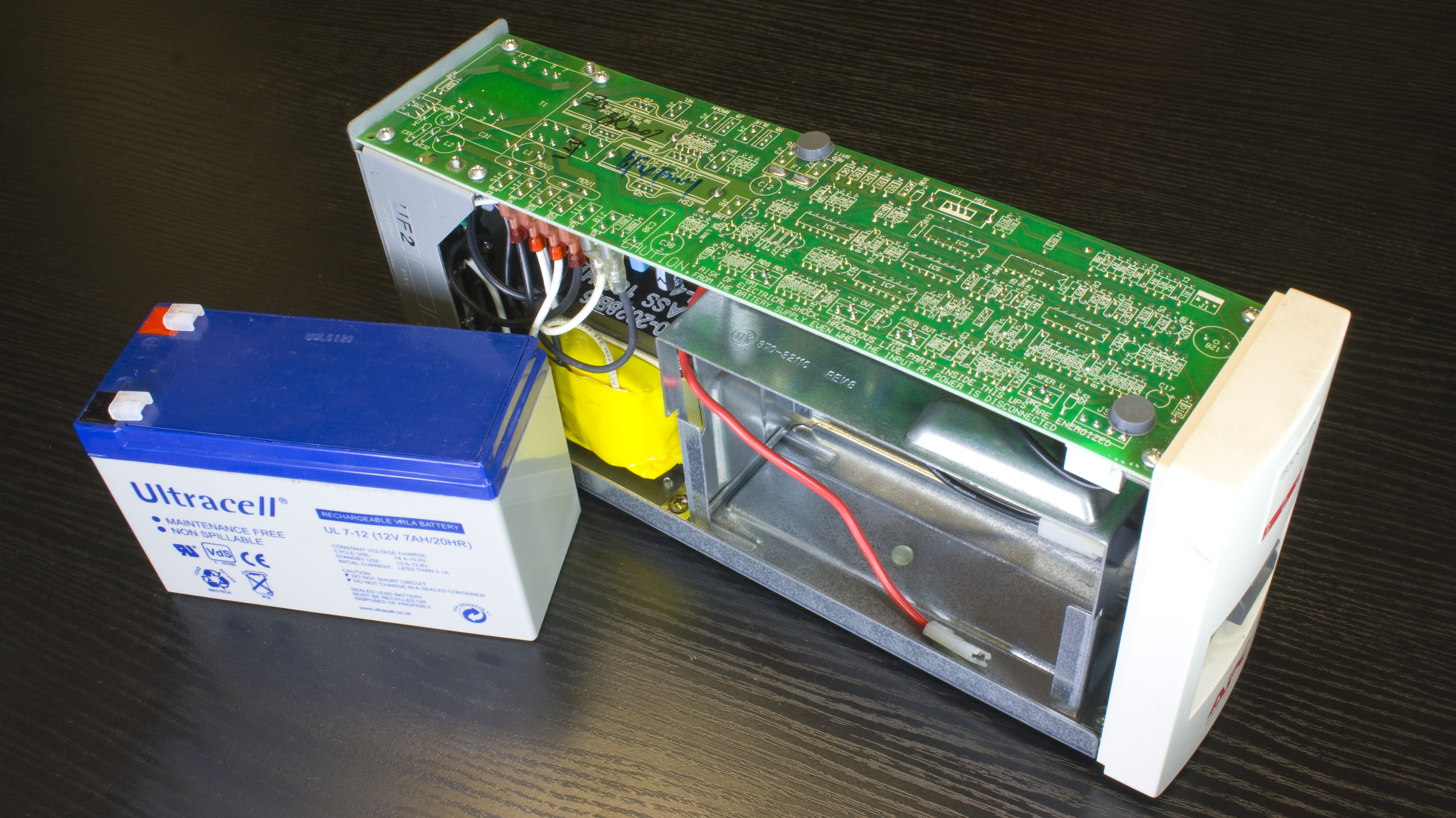 uninterruptible power supply